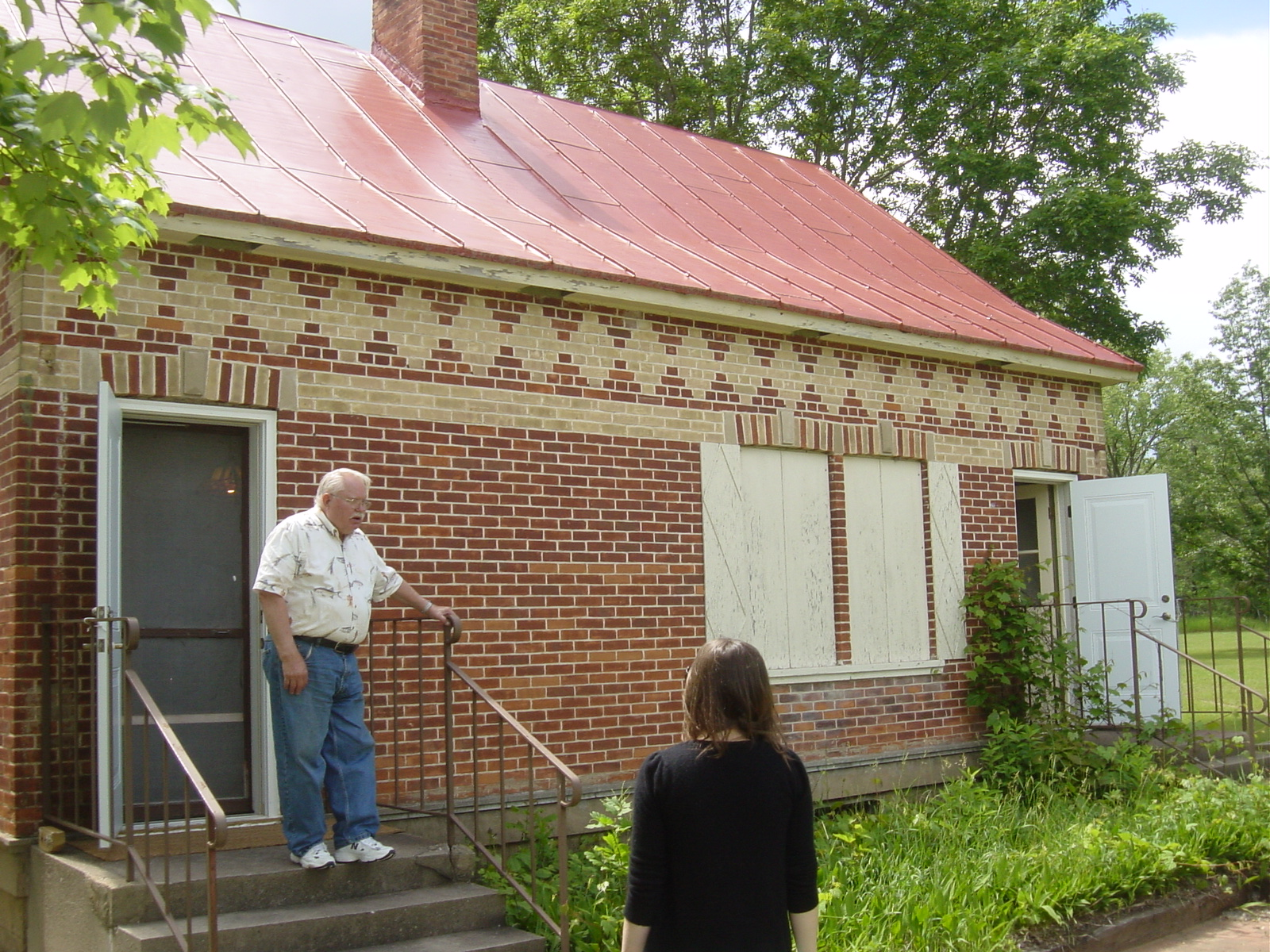 Old Belgian immigrant farmstead at Copper Culture State Park. The archaeological site in the park is listed on the National Historic Landmark list as the "Oconto Site".